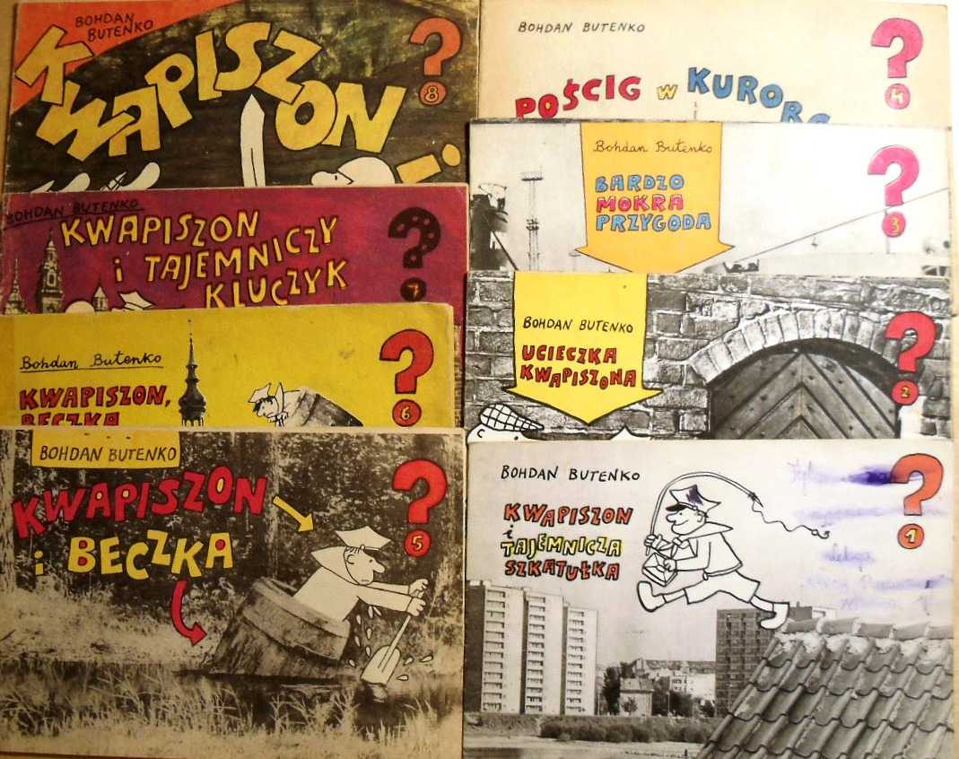 Cover pages series "Przygody Kwapiszona".